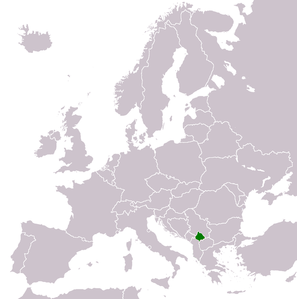 Location of the Republic of Kosovo in Europe.